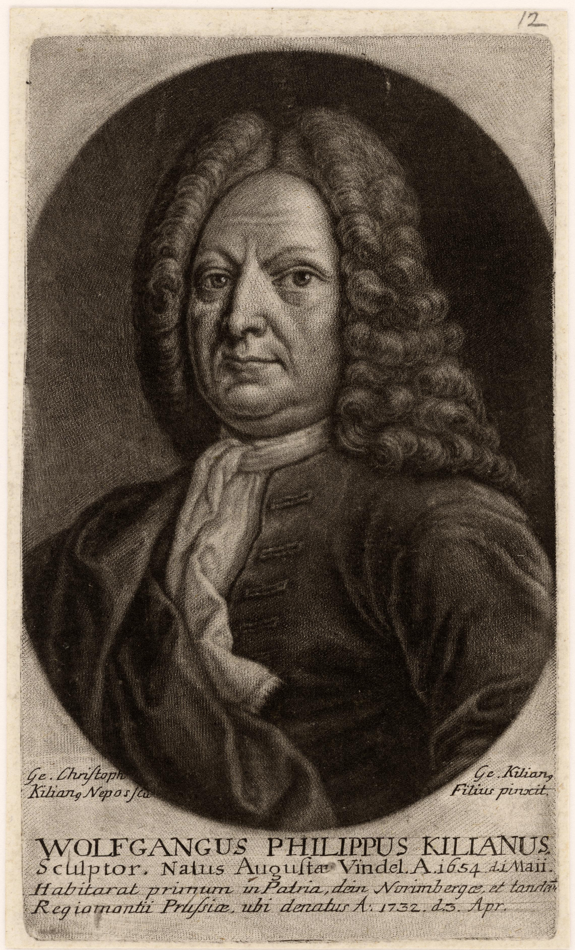 Depicted person: Wolfgang Philipp Kilian